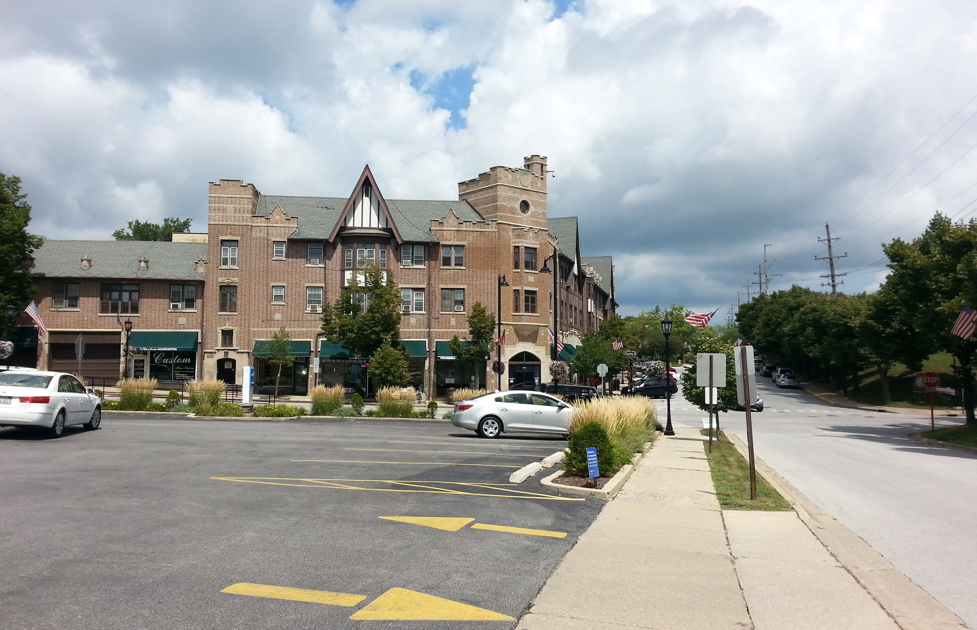 Downtown Flossmoor